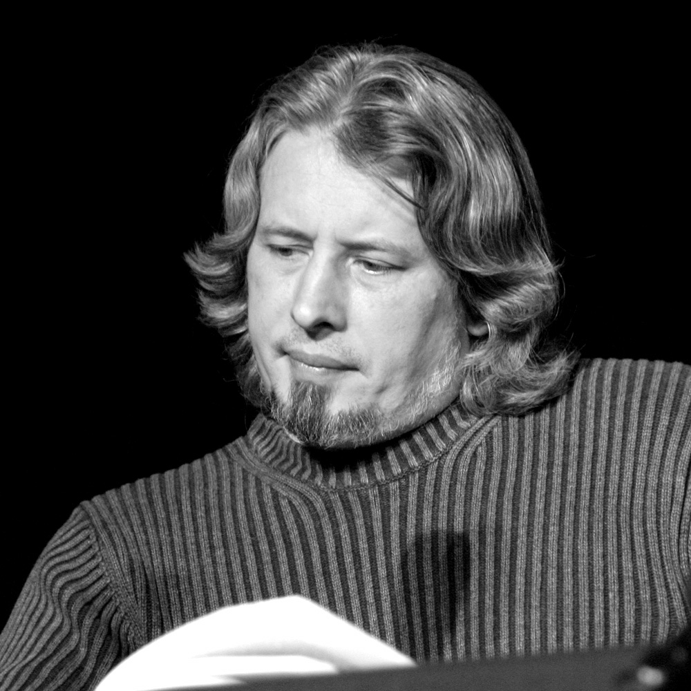 Vladimir Sorokin, Russian writer, at lit.Clogne, literature festival in Cologne, Germany date: 2006-03-13 author: Elke Wetzig (elya)